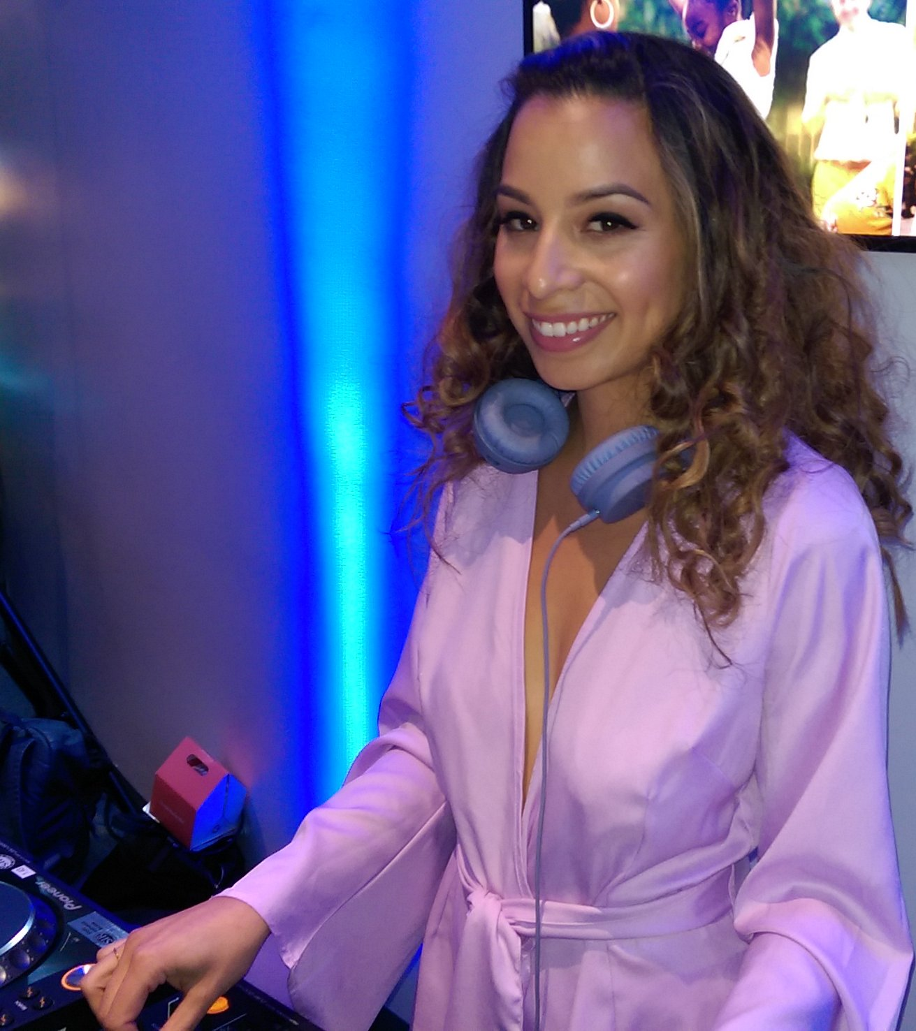 A cropped version of File:Jasmine Solano 2018 Google Sunnyvale.jpg.